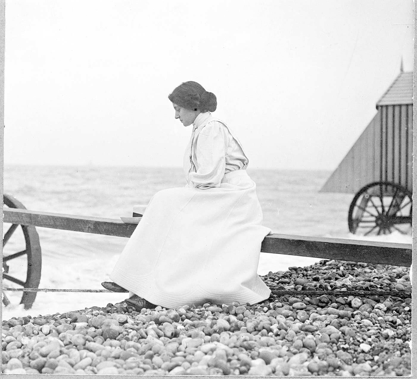 Black-and-white photographic portrait of Florence Hardy, wife of the English writer Thomas Hardy, at the seashore. Image courtesy of the Beinecke Rare Book & Manuscript Library, Yale University.